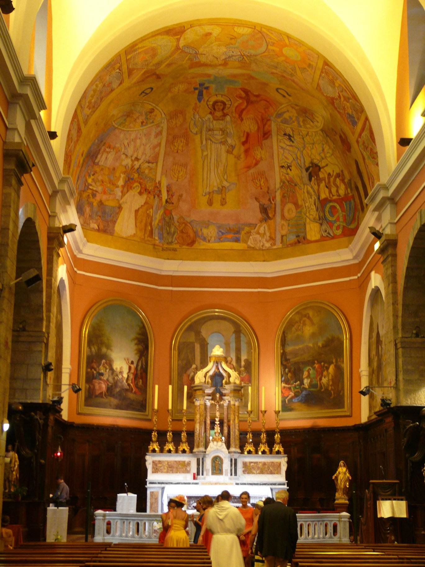 Saint-John-the-Baptist's church of Solliès-Pont (Var, Provence-Alpes-Côte-d'Azur, France).